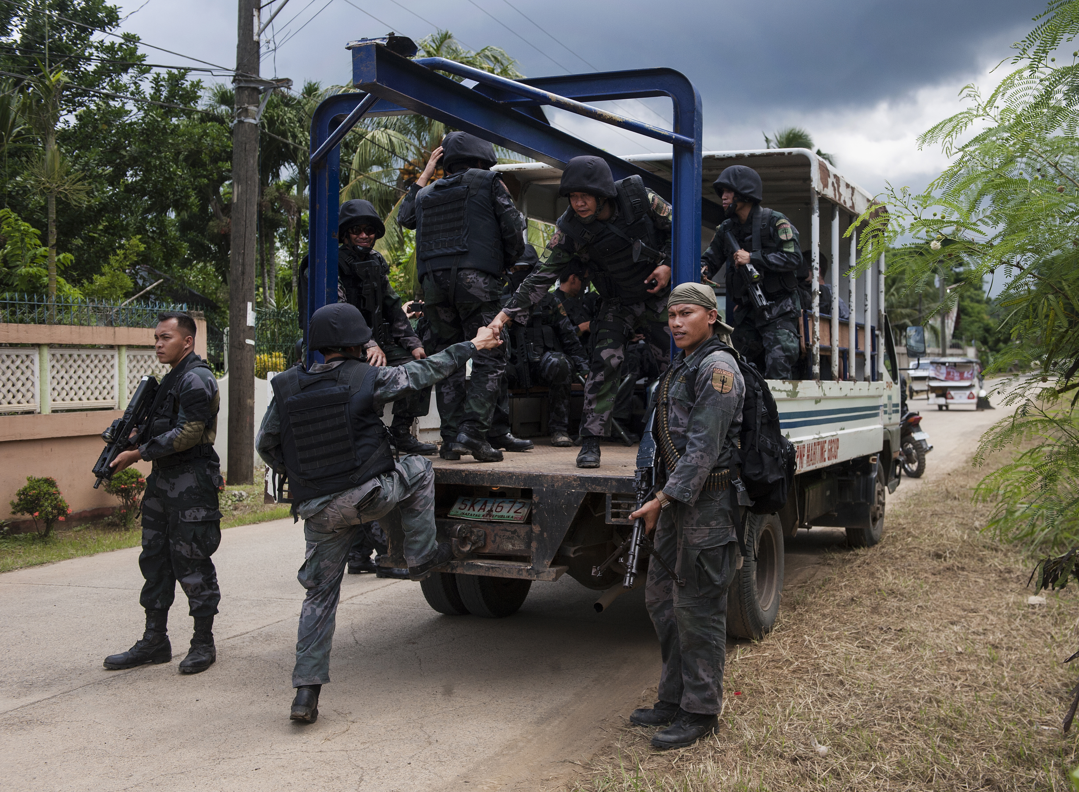 Philippine National Police (PNP) Maritime Group members prepare to move after completing a direct action training scenario as part of the Joint Interagency Task Force (JIATF) West exercise Aug. 6, 2014, in Puerto Princesa, Philippines. PNP police officers received training from U.S. Army, Operational Detachment-Alpha Special Forces operators to increase their capabilities in support of counterdrug efforts during JIATF West. The mission of JIATF West is to reduce threats in the Asia-Pacific by combating drug related transnational organized crime. The work of JIATF West supports counterdrug efforts of partner nation law enforcement and military units with law enforcement or border security responsibilities. (U.S. Air Force photo by Staff Sgt. Christopher Hubenthal/RELEASED)